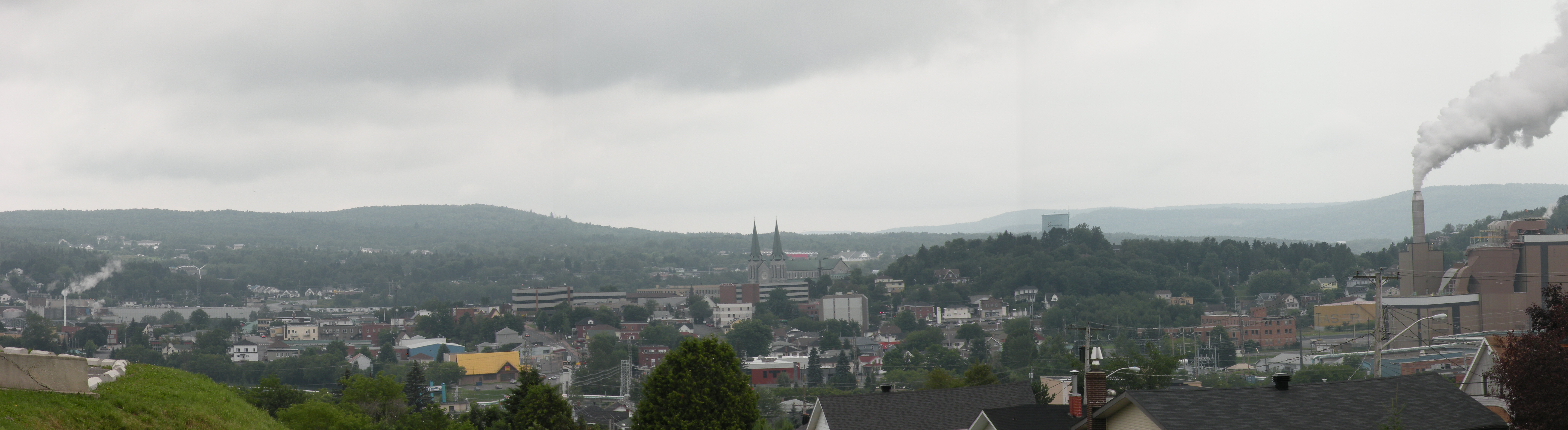 Panorama of Edmundston, New Brunswick, Canada, taken from the Brunswick Centre.